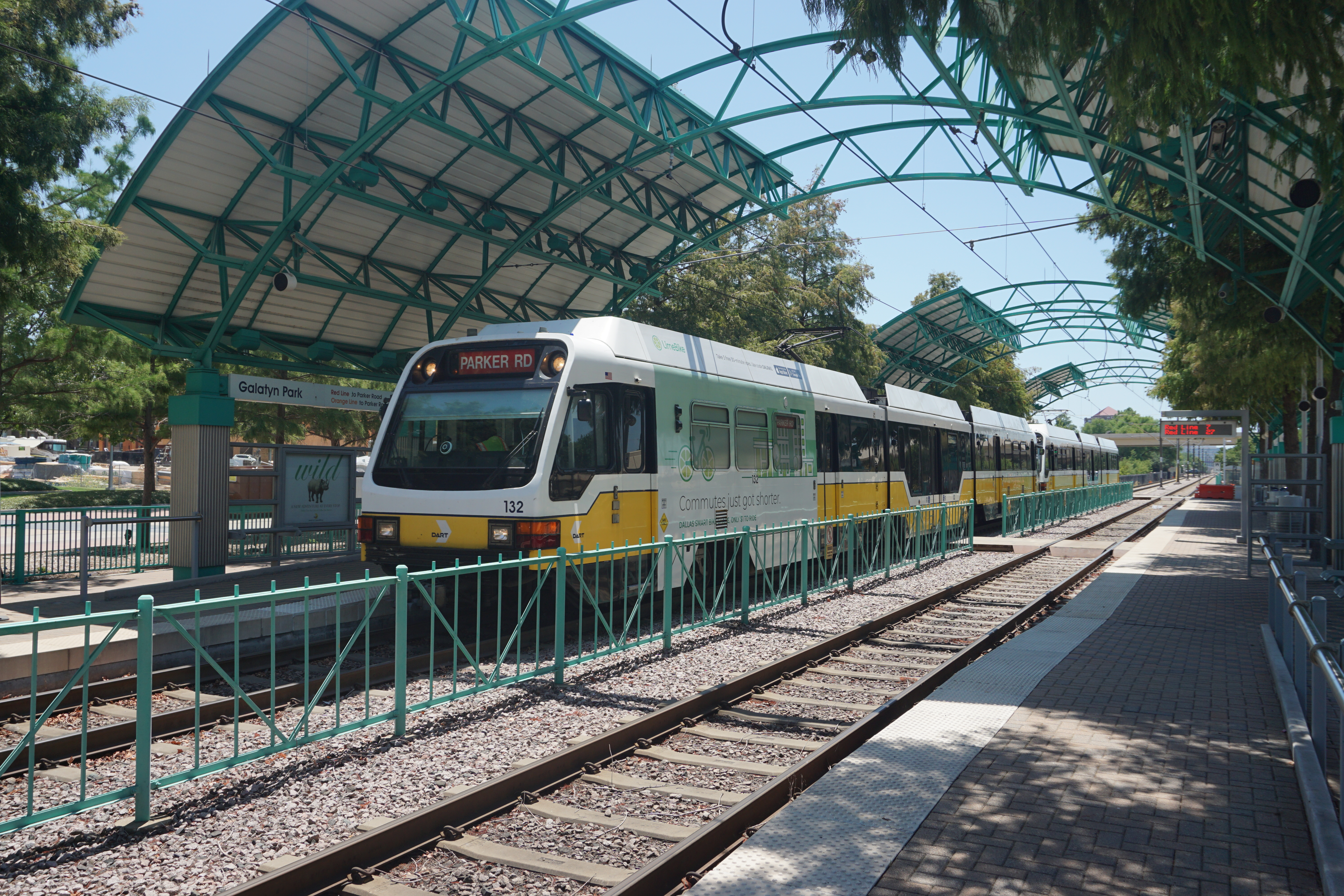 A DART Light Rail Red Line train at Galatyn Park Station in Richardson, Texas (United States).